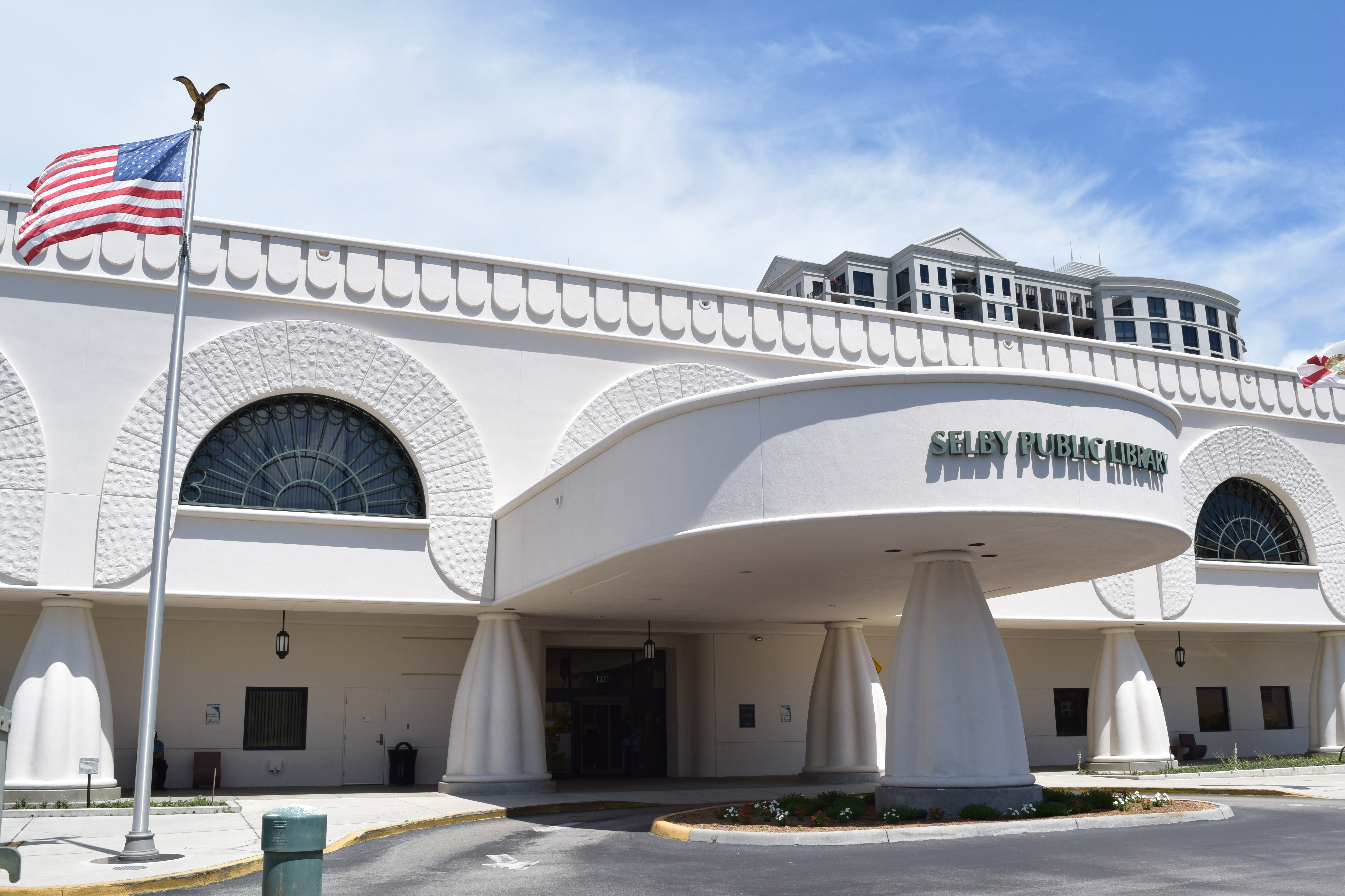 A front view of the Selby Public Library in downtown Sarasota, FL.